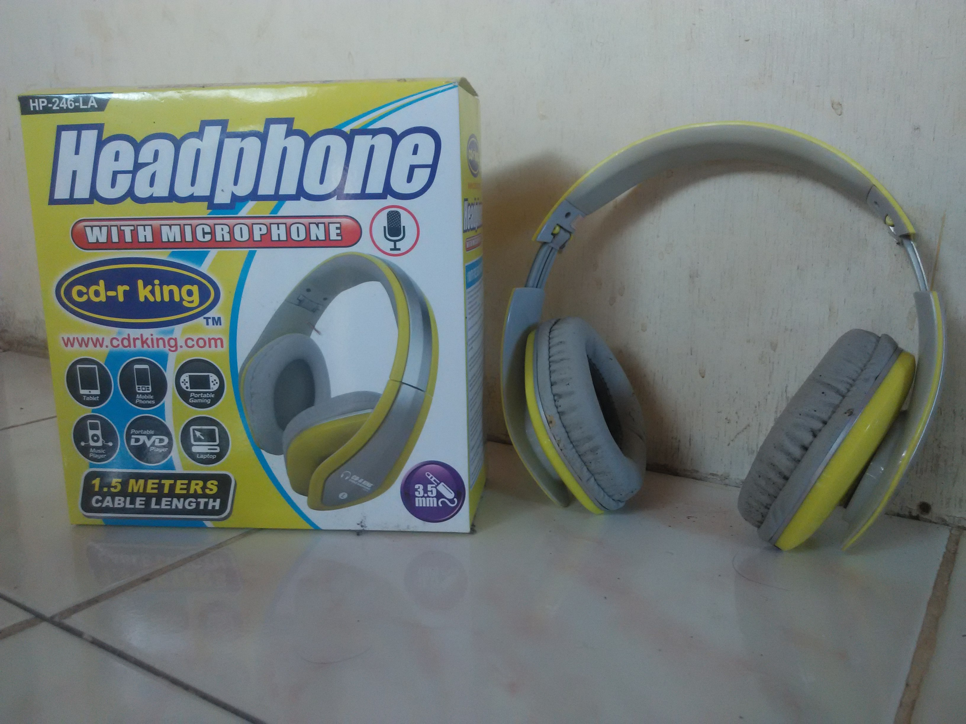 A CD-R King Headphone LA Series